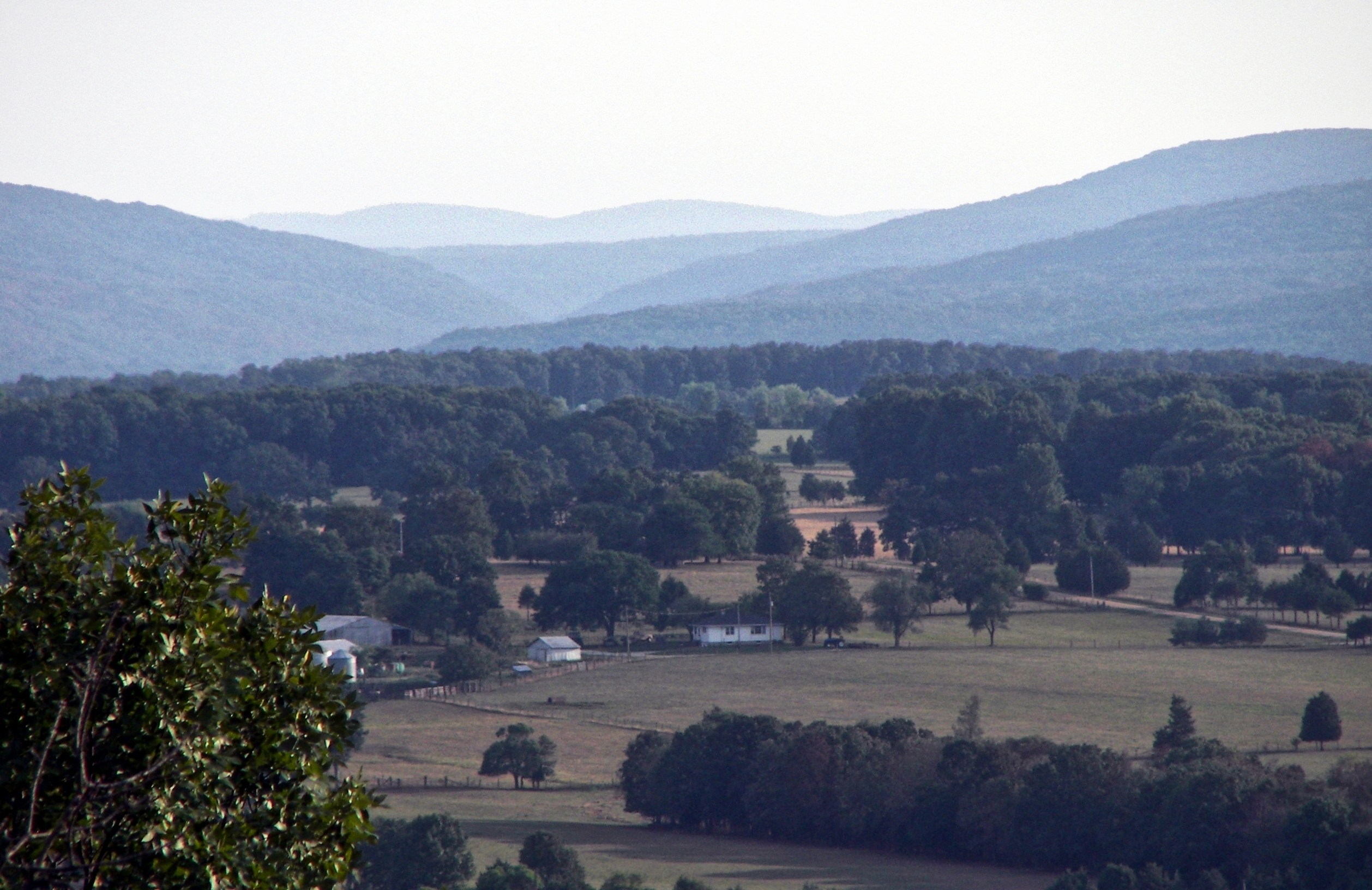 View towards the Saint Francois Mountains of the Missouri Ozarks from the top of Knob Lick Mountain. The foreground is in St. Francois County, and the distance is in Madison County.